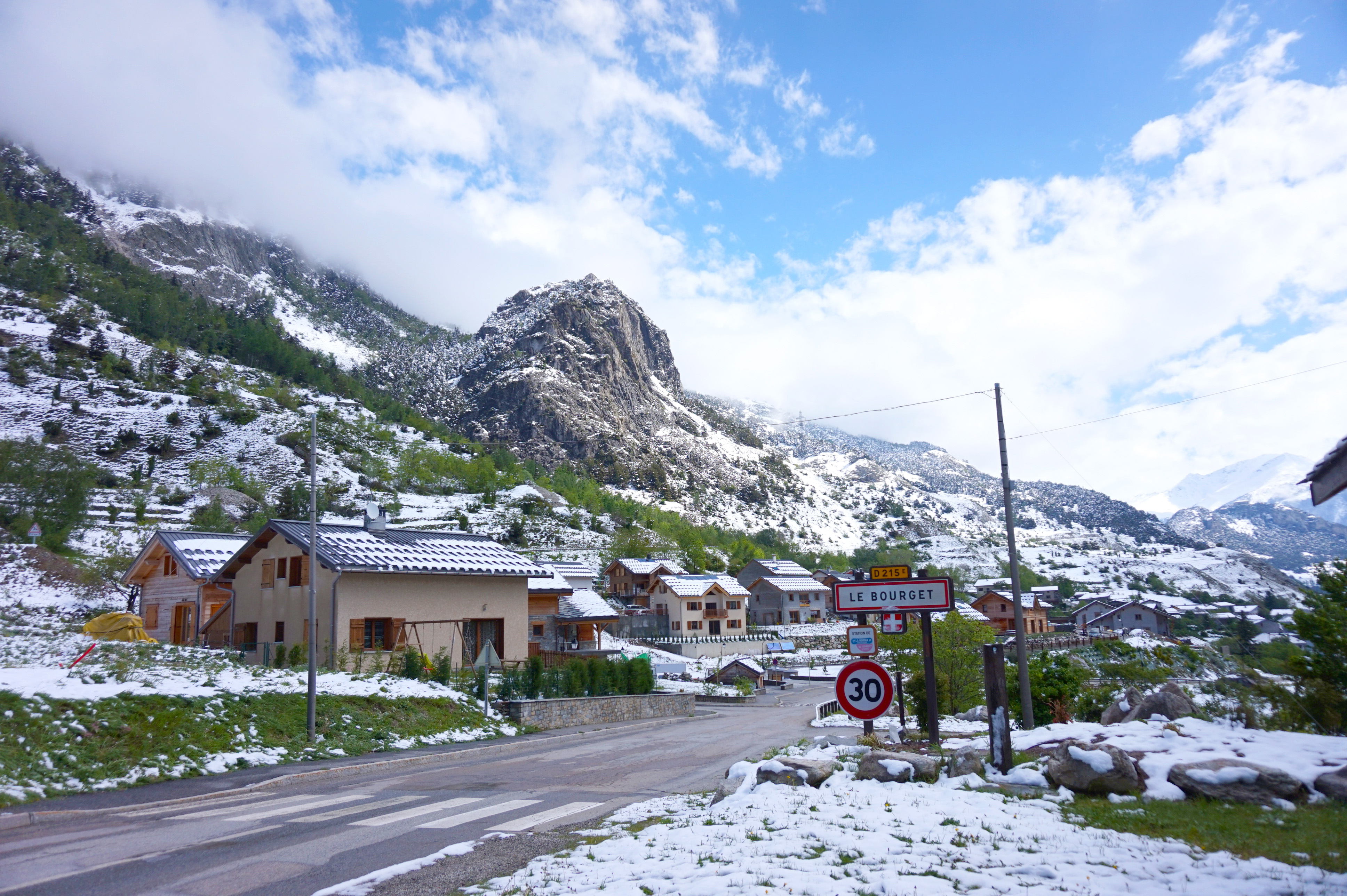 Le Bourget, France.